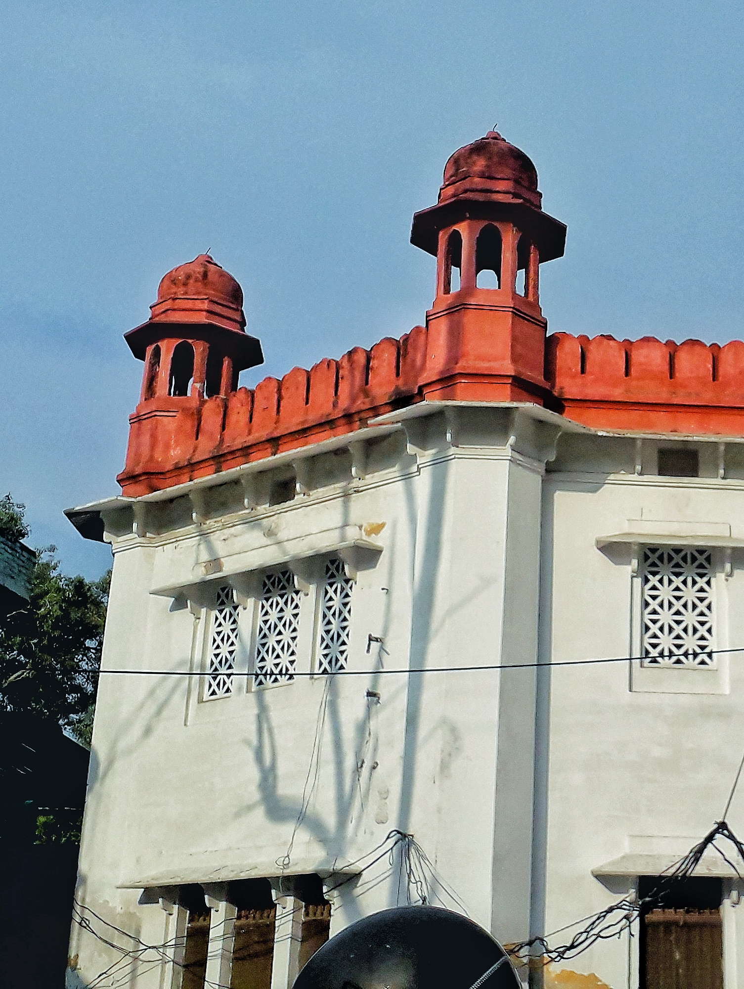 Kotwali Bareilly